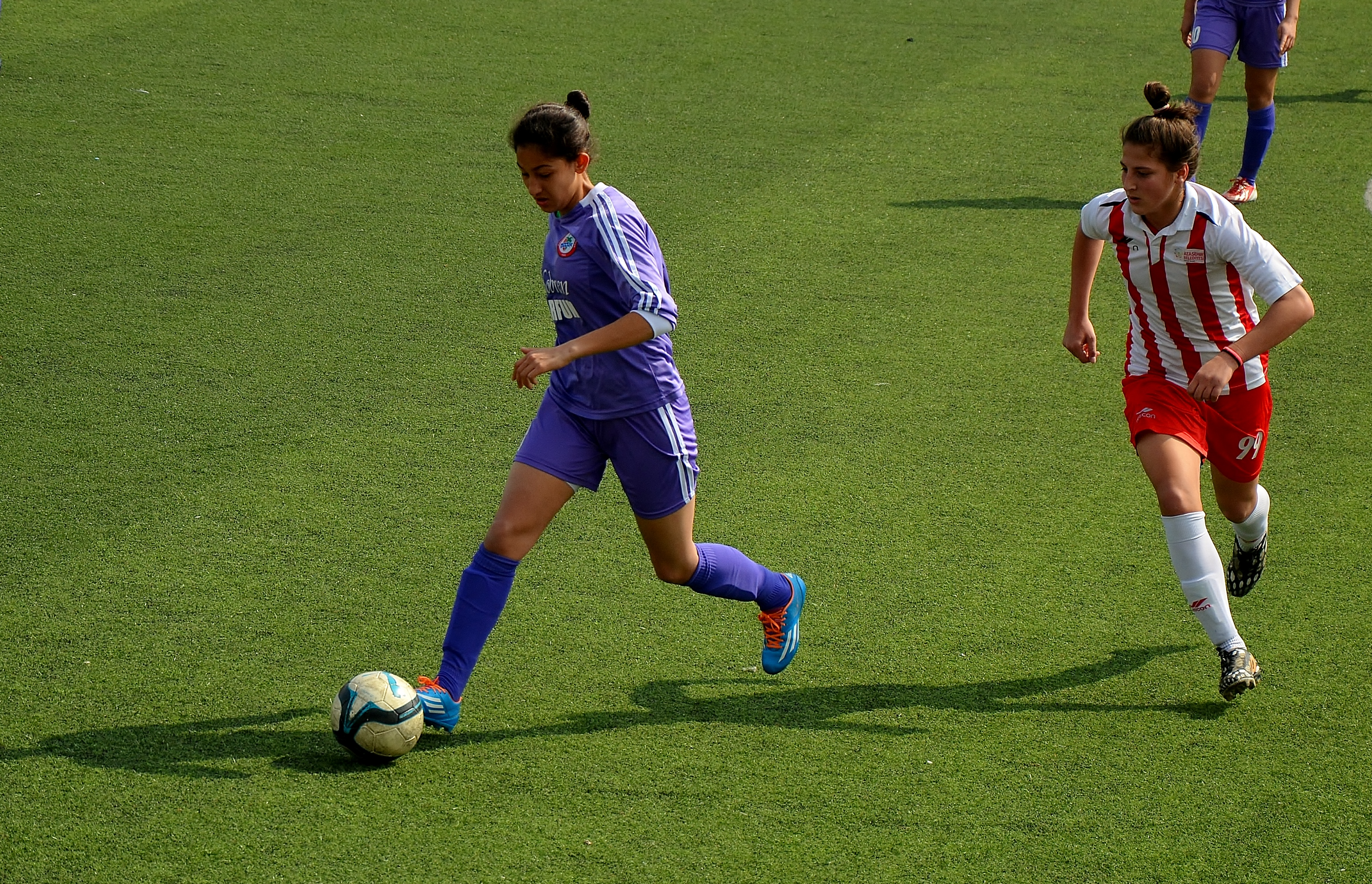 Damla Bozyel playing for Karadeniz Ereğlispor in the 2014-15 season away match against Ataşehir Belediyespor.